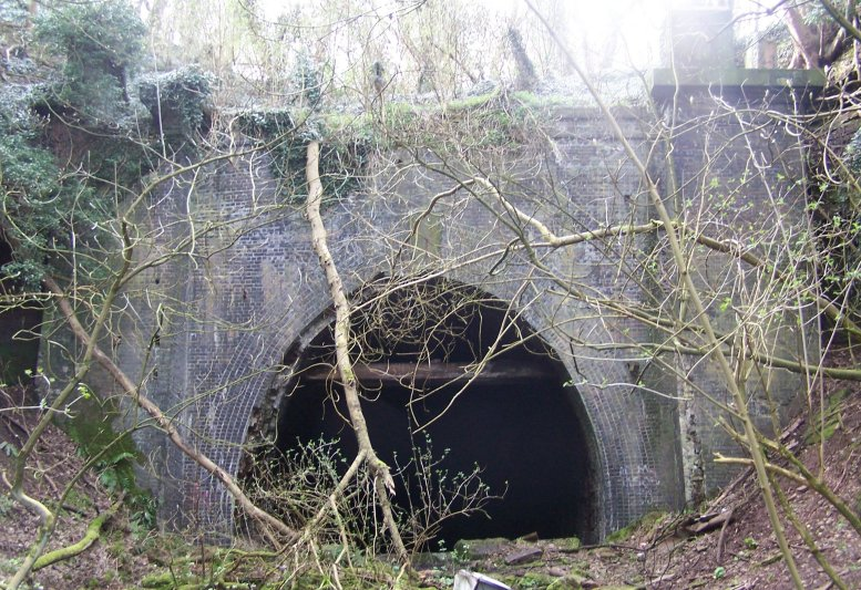 Author: Martin Cordon, Source: Own Picture Martin Cordon 17:05, 22 March 2007 (UTC)